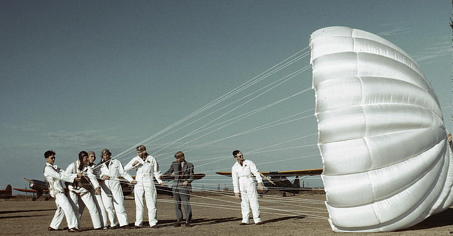 Instructor explaining the operation of a parachute to student pilots, Meacham field, Fort Worth, Texas.